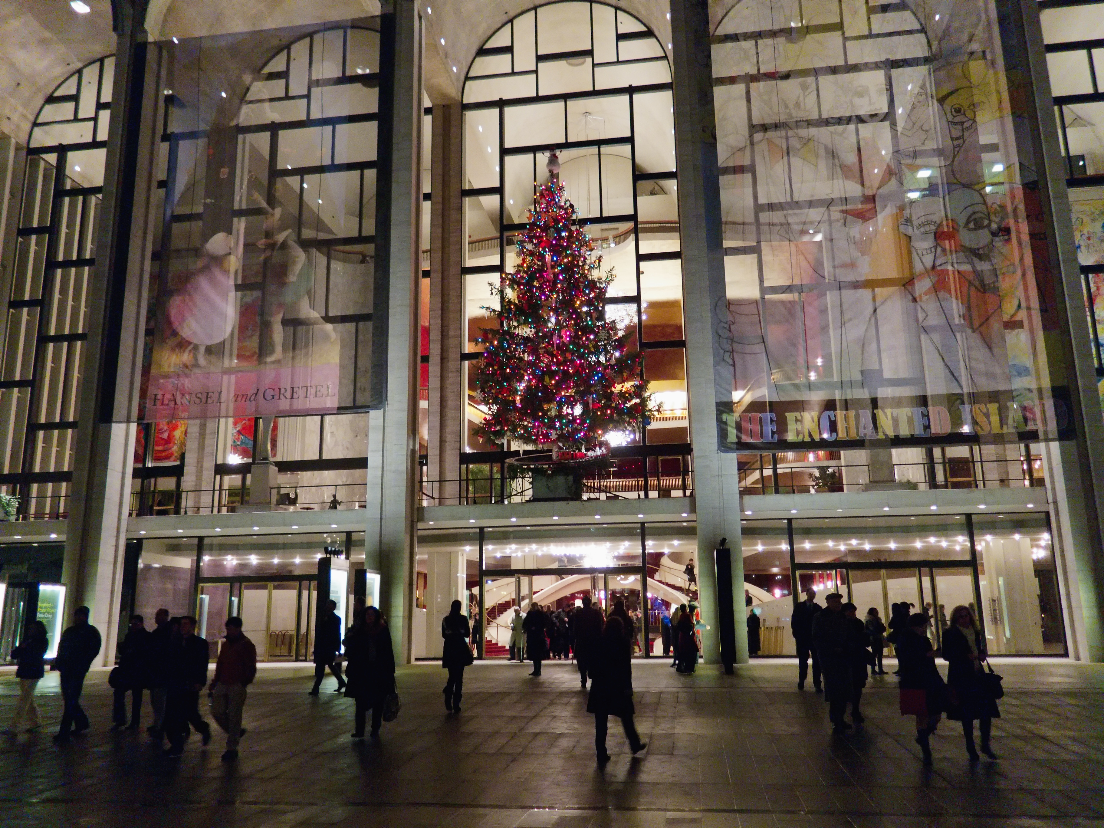 Christmas Tree at the Metropolitan Opera. Faust Metropolitan Opera House December 20, 2011 New York